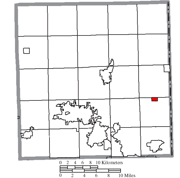 Map of the municipal and township boundaries of Trumbull County, Ohio, United States, as of the 2000 census, with the location of the village of Yankee Lake highlighted. Township borders are shown only in unincorporated areas in order to differentiate incorporated and unincorporated areas more clearly.